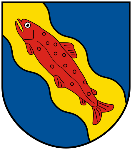 Coat of arms of Vöhrenbach